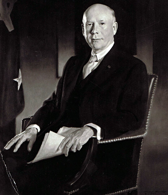 Picture of Charles S Thomas, Secretary of the Navy 1954-57